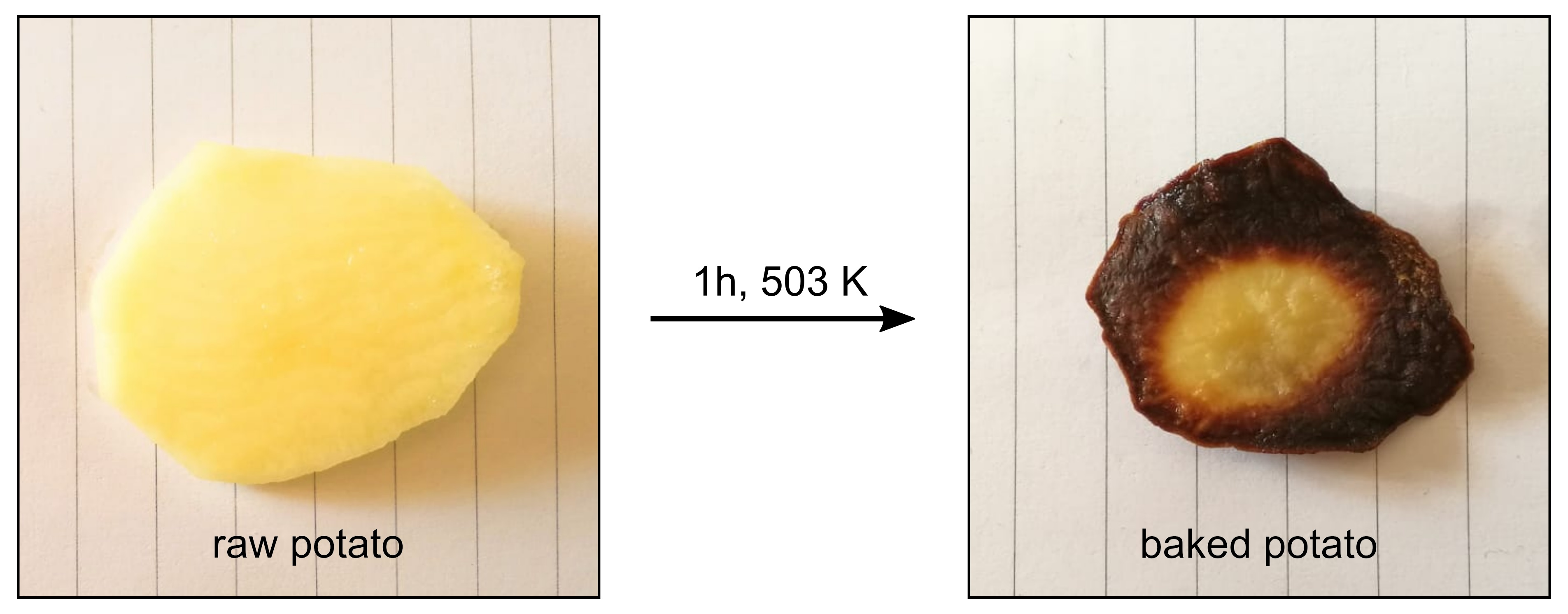 Effects of the Maillard reaction on a starch-rich material (potato slice). The substrate is shown before (left) and after (right) being exposed to hot dry air (503 K).